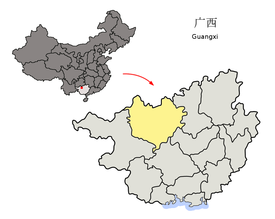 Location of Hechi Prefecture (yellow) within Guangxi Autonomous Region of China Map drawn in november 2007 using various sources, mainly : Guangxi Autonomous Region administrative regions GIS data: 1:1M, County level, 1990 Guangxi Counties map from